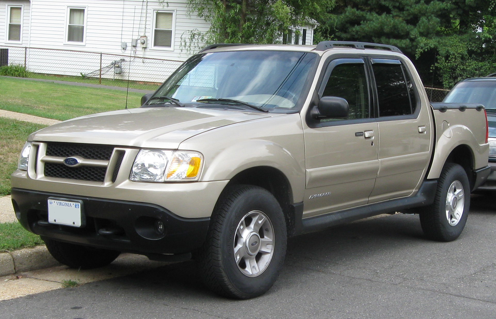 2001-2005 Ford Sport Trac photographed in Fairfax, Virginia, USA.